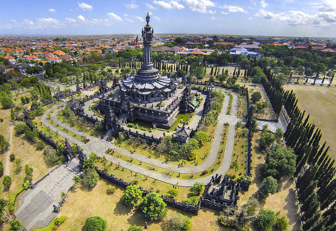 From wikipedia: Bajra Sandhi Monument is a monument to Balinese people struggle from time to time. The monument is located in front of the Bali Governor's Office in Renon, Denpasar, Bali.